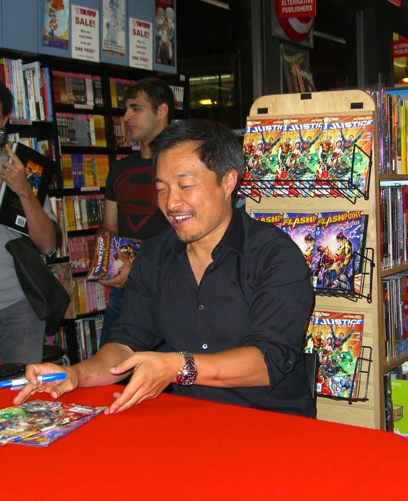 Comic book creator and publisher Jim Lee at the August 31, 2011 midnight signing of Flashpoint #5 and Justice League #1, the latter of which was illustrated by Lee and written by Geoff Johns, who was also present (but not visible in this photo). The two titles were part of "The New 52", the 2011 company-wide relaunch by DC Comics of its entire superhero comic book line. Photographed by Luigi Novi. This photo is not in the public domain. It may, however, be used, modified and published for any purpose, free of charge, only if the photographer is properly credited, either by linking the photograph to this page, or with an easily visible credit to the photographer placed near the photo in each instance in which it is used. (See licensing information below.) Publication of this photo without this proper attribution constitutes copyright infringement. If you have any questions, you can contact me on my Wikipedia Talk Page.